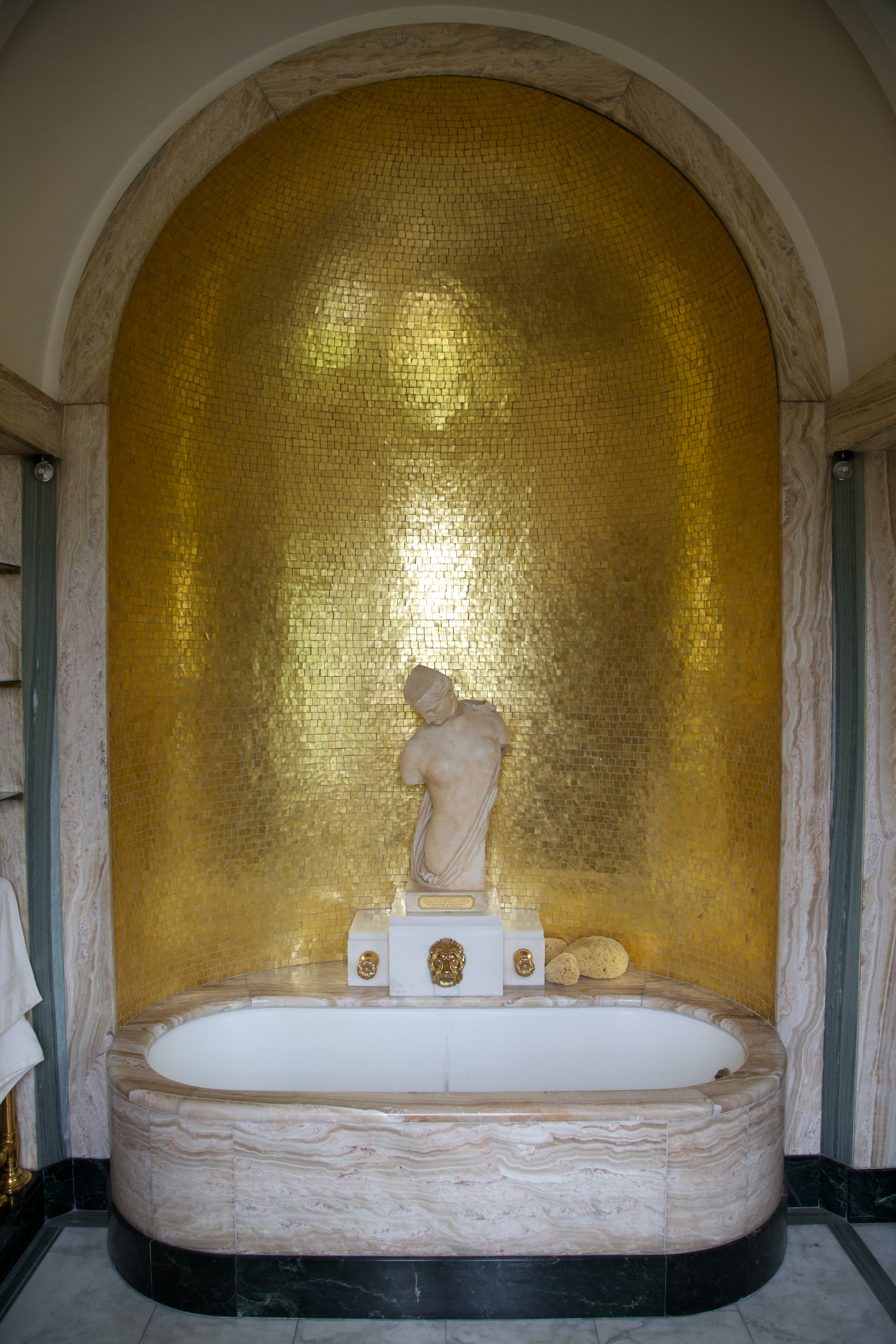 Eltham Court (eltham Palace) Wikidata has entry Q17551054 with data related to this item.